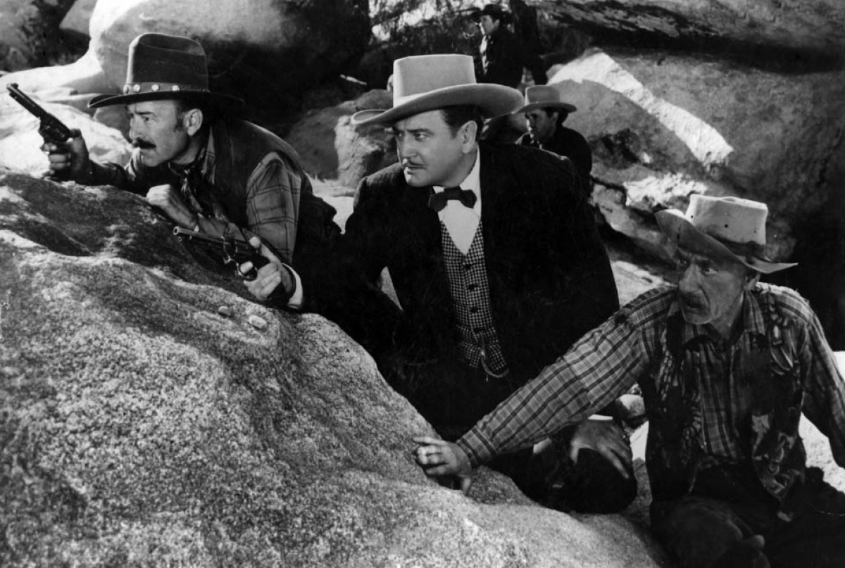 L. to R. : Robert Armstrong, Richard Dix, and Clem Bevans in The Kansan (1943) - cropped screenshot